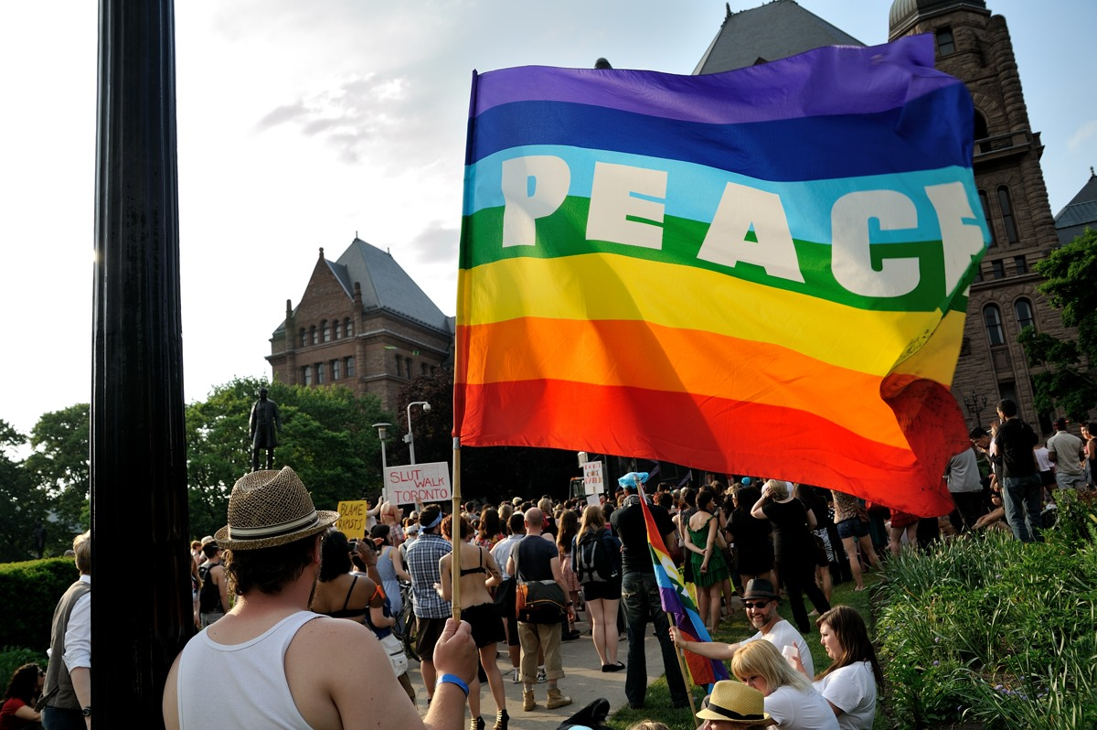 A participant holds the Peace rainbow flag representing the LGBT community at a recent protest walk in Toronto, Canada. This city is the birthplace of the Slutwalk movement. "SlutWalk Toronto began as a small idea in 2011 to fight back against victim-blaming and slut-shaming around sexual violence. We were galvanized into action and took our name from a Toronto Police officer who referred to women and survivors of sexual assault as "sluts" and suggested women 'dressing like sluts' were inviting their own victimization. The prevalence of this attitude in our culture at large drew many to this cause to end blaming victims of sexual violence, and judging peoples' worth by their bodies and what they do with them. In the last year, this fight has spread to over 200 cities around the world, where independent organizers have organized locally-driven SlutWalks and SlutWalk-inspired events. SlutWalk started, and is still going, because we and so many others around the world have had enough." - Excerpt taken from For more background info on the movement, please visit its official website at More pictures coming as soon as I'm done with several assignments I am currently on.